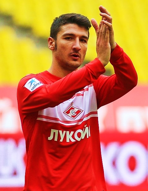 Bocchetti